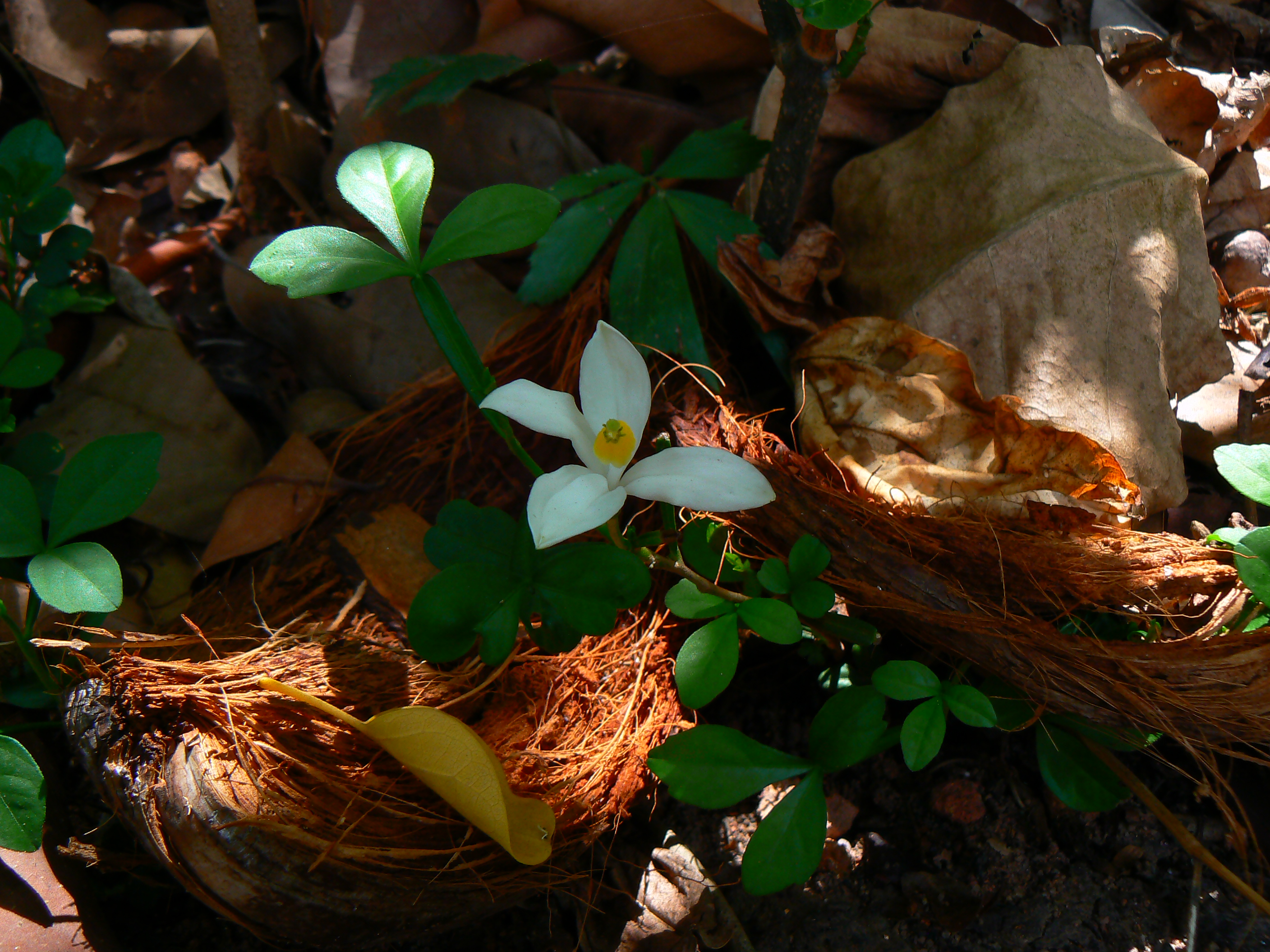 Meliaceae (melia, or mahogany family) » Naregamia alata Naregamia -- pronunciation obscure, probably derived from Malabar name for this plant a-LAY-tuh -- meaning, winged commonly known as: Goanese ipecac, Goanese ipecacuanh • Hindi: पित्तमारी pitmari, तीनपर्णी tinparni • Kannada: ನೆಲಬೇವು nelabevu • Konkani (in Goa): पित्तमारी pitmari, तीनपानी tinpani • Malayalam: നിലനാരകം nilanarakam • Sanskrit: अम्लवल्ली amlavalli, त्रिपर्णिक triparnika Distribution: Western Peninsular India Ref: Ayurvedic Medicinal Plants • Sahyadri Database • Kerala Agricultural University